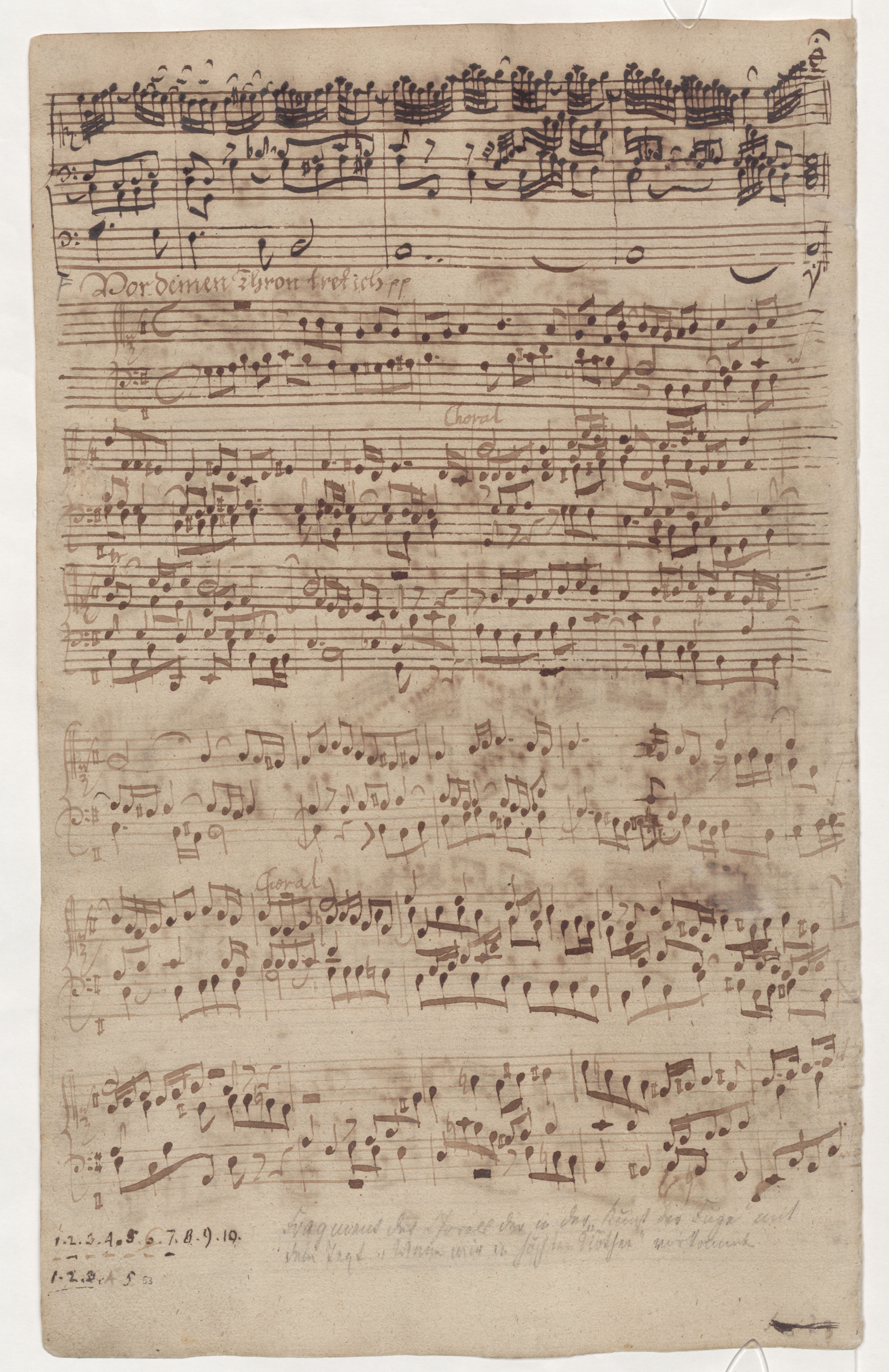 Last page of autograph manuscript of Bach's Canonical Variations, BWV 769a, the canon per augumentationem. It is in the last page in the collection of manuscripts referred to as P 271, where it is followed by the so-called "deathbed chorale", Vor deinen Thron tret' ich, BWV 668, which is not in Bach's handwriting and of which only that fragment survives.